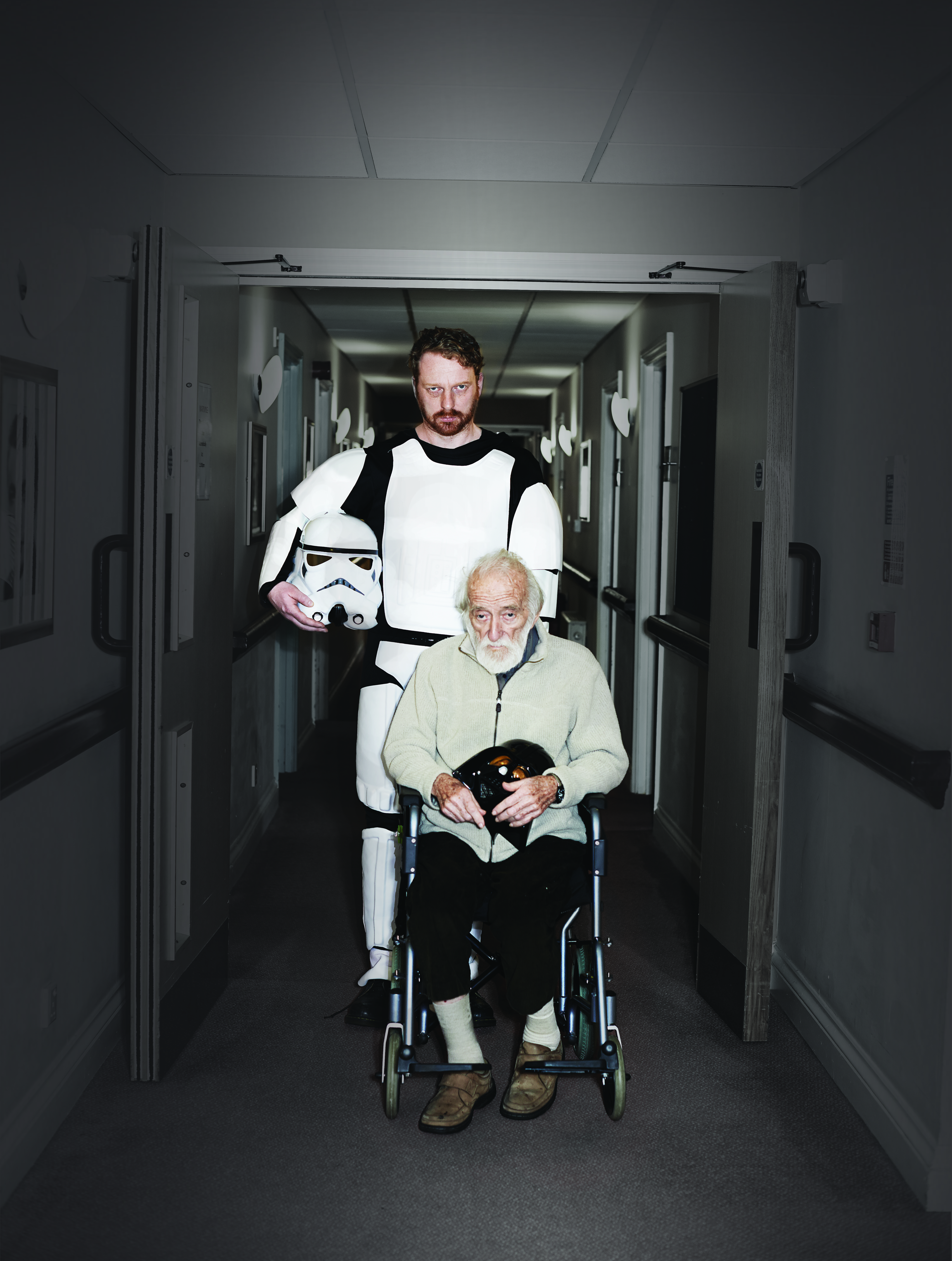 Kim Noble with His Father?